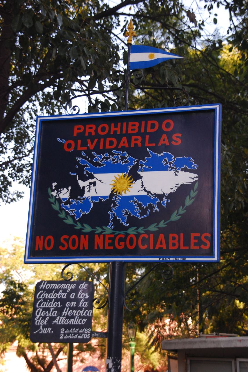 On the sign is a map of the Falkland Islands in the colours of the Argentine flag. The larger sign says: "It is forbidden to forget them. They are not negotiable." The smaller sign indicates that this is done in memory of the men from Córdoba who died in the South Atlantic in 1982. If you want to know more, there is an article on the Falklands conflict between Argentina and the UK.